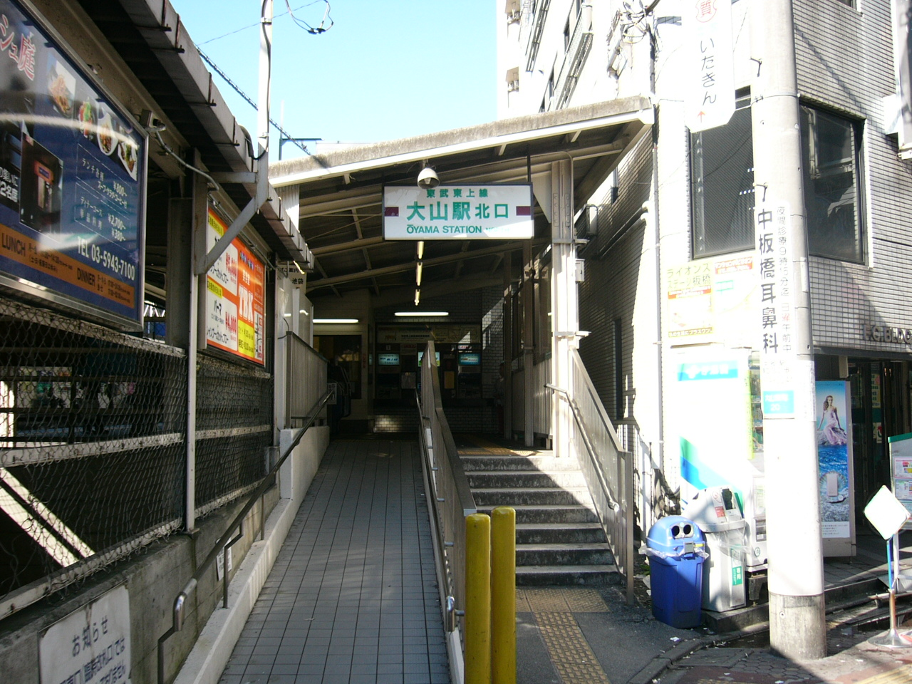 The north entrance at Oyama Station on the Tobu Tojo Line